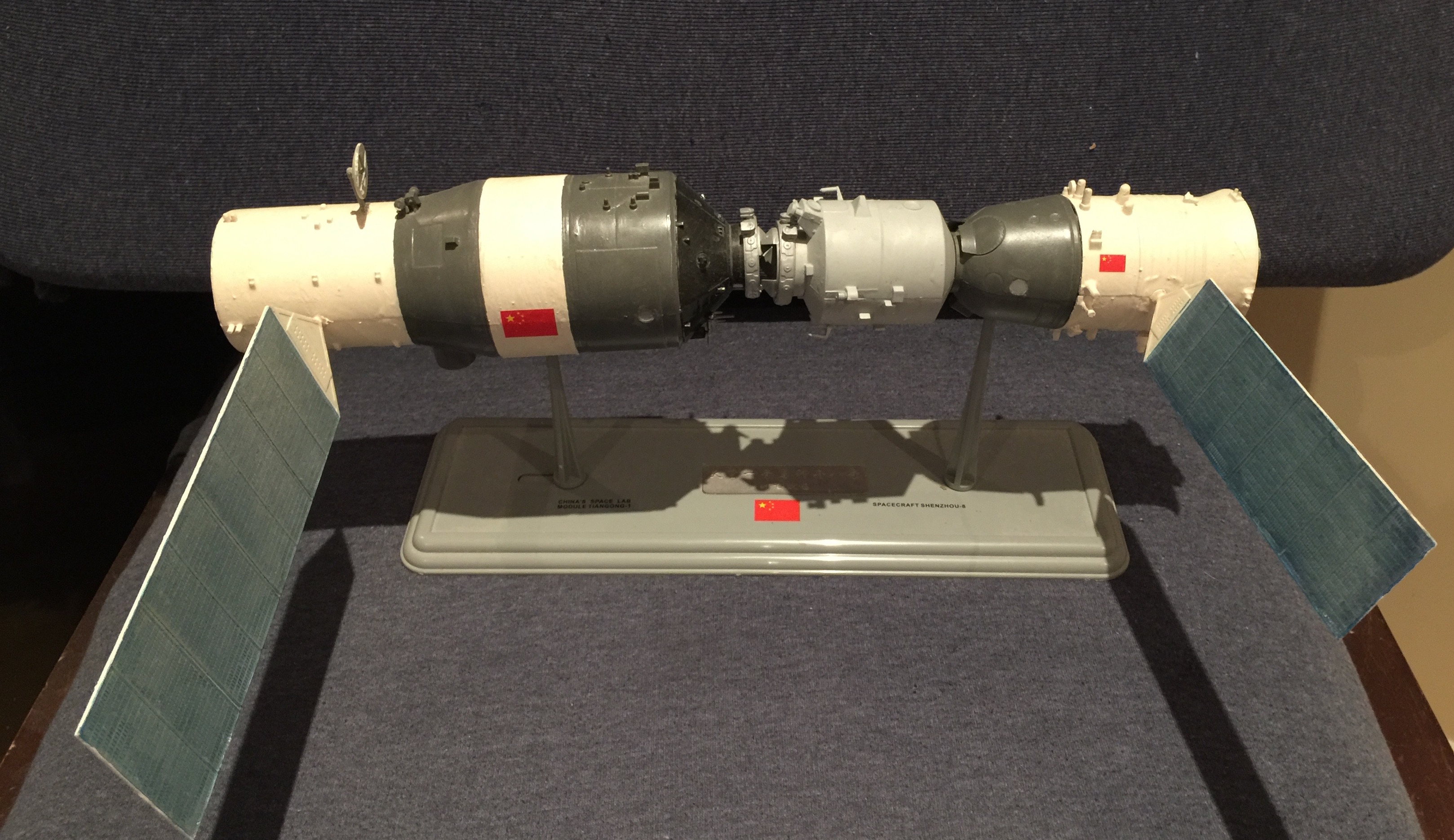 Model of the Chinese Tiangong Shenzhou space station combination